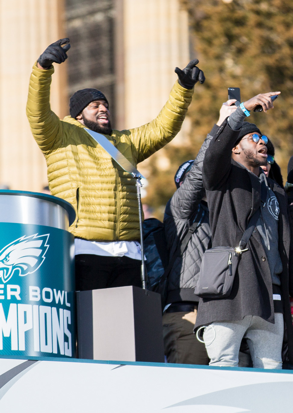 February 8, 2018 Philadelphia, PA